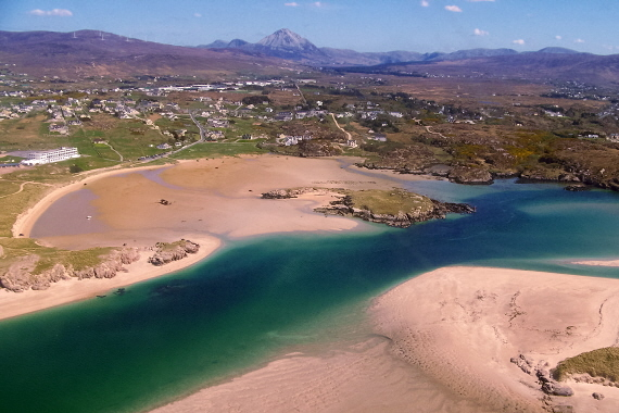 Ostan Gweedore Hotel, beach, & shipwreck south of R257 at Gweedore Seen is an inlet to the Atlantic Ocean south of Bunbeg Harbour. This area is east of the Donegal Carrickfin Airport.